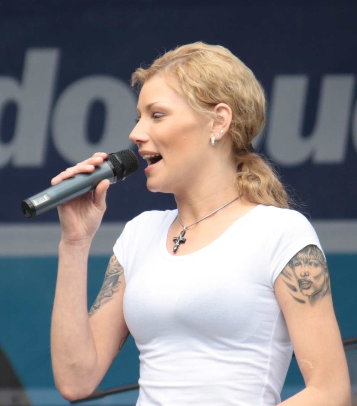 Czech singer Helena Zeťová during ODS election campaign meeting on Prague island Kampa